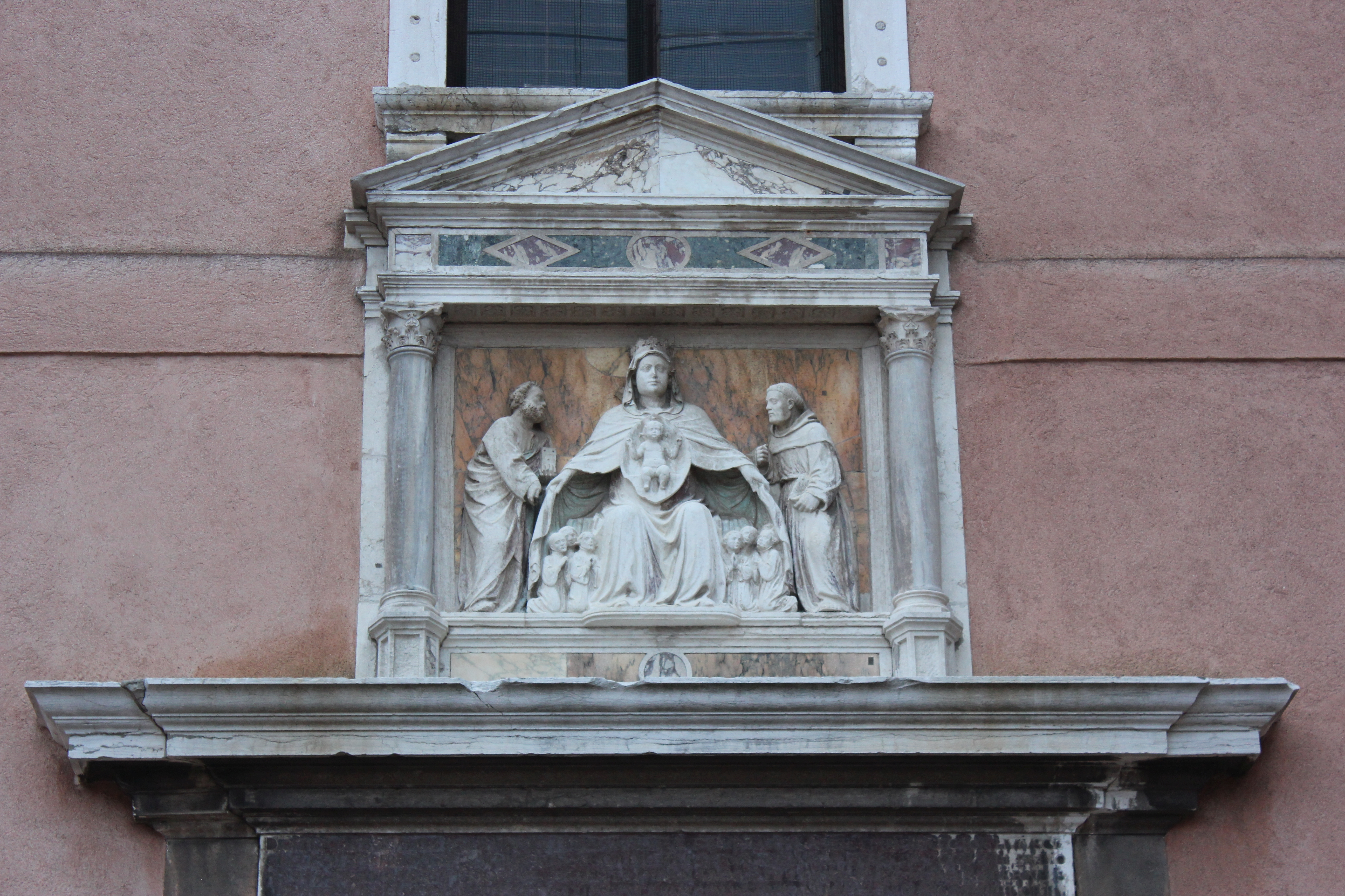 Venice - Madonna dell'Orto church